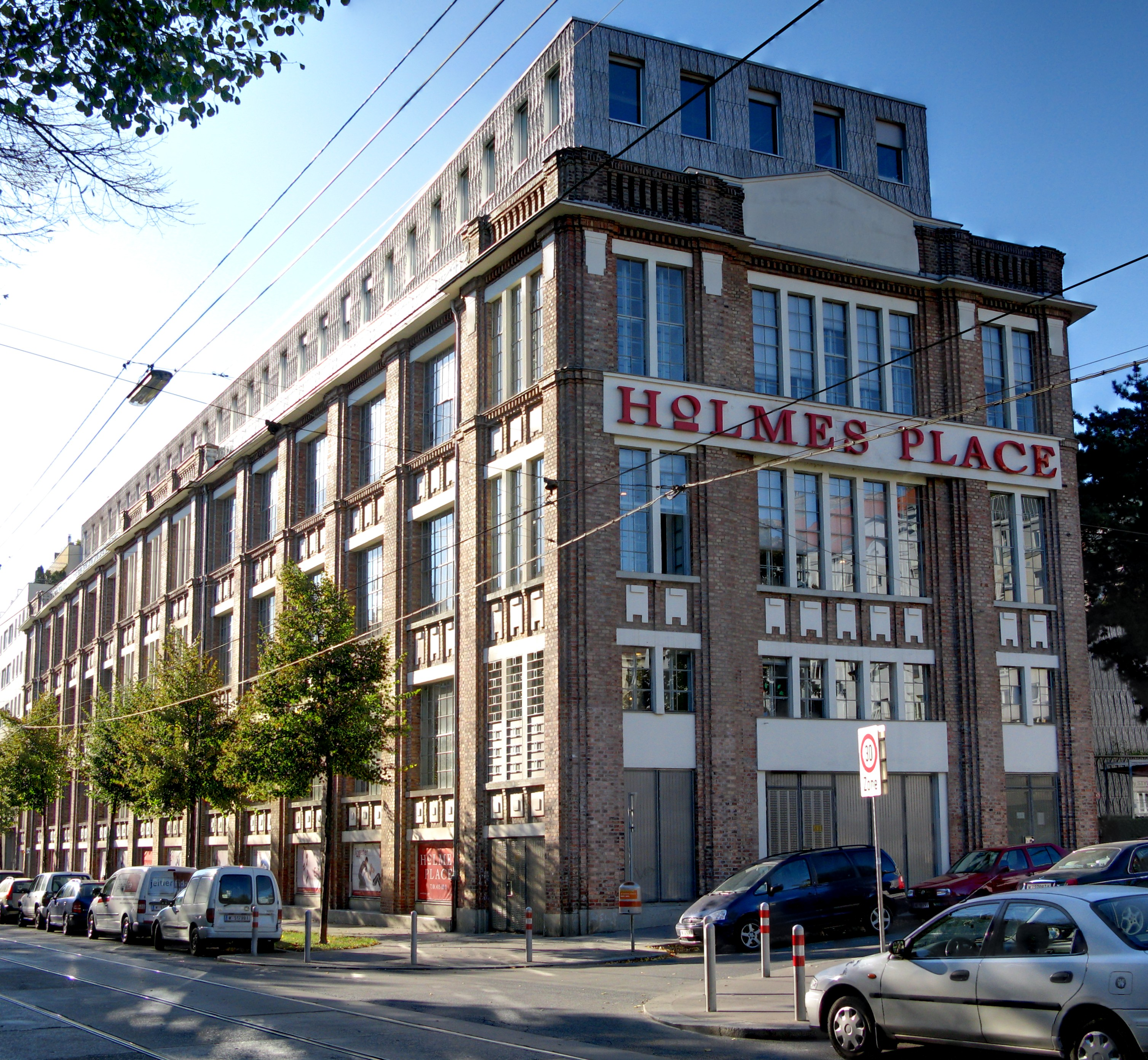 Former ‘Semperit’ factory